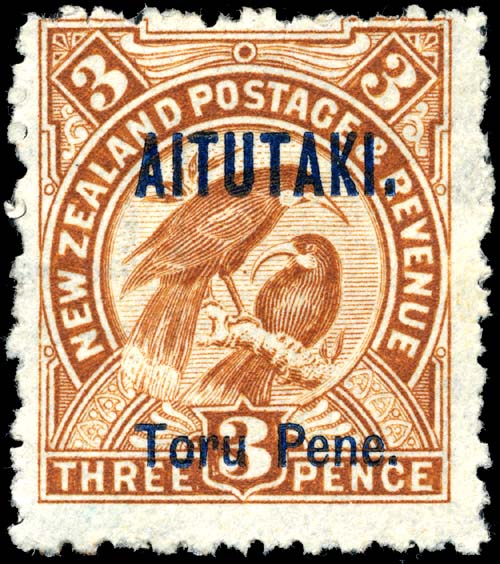 Aitutaki 3-pence overprint stamp of 1903 Depicting Huia birds